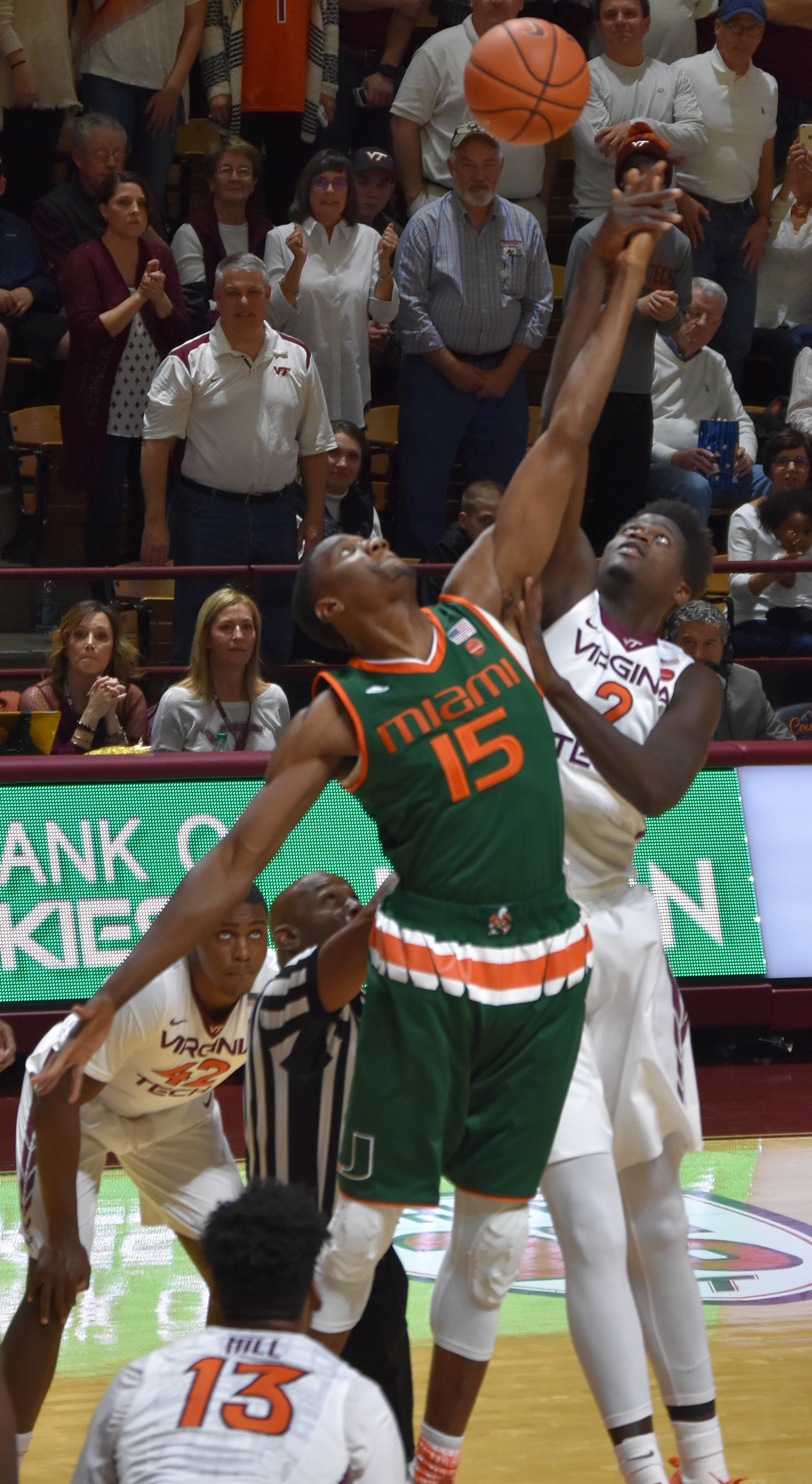 Referee Les Jones tosses the ball at center court and we are under way in Blacksburg